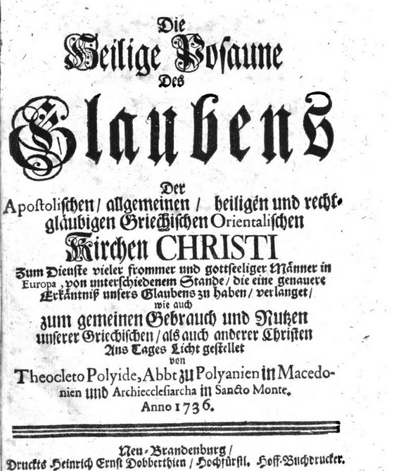 Die_Heilige_Posaune_des_Glaubens